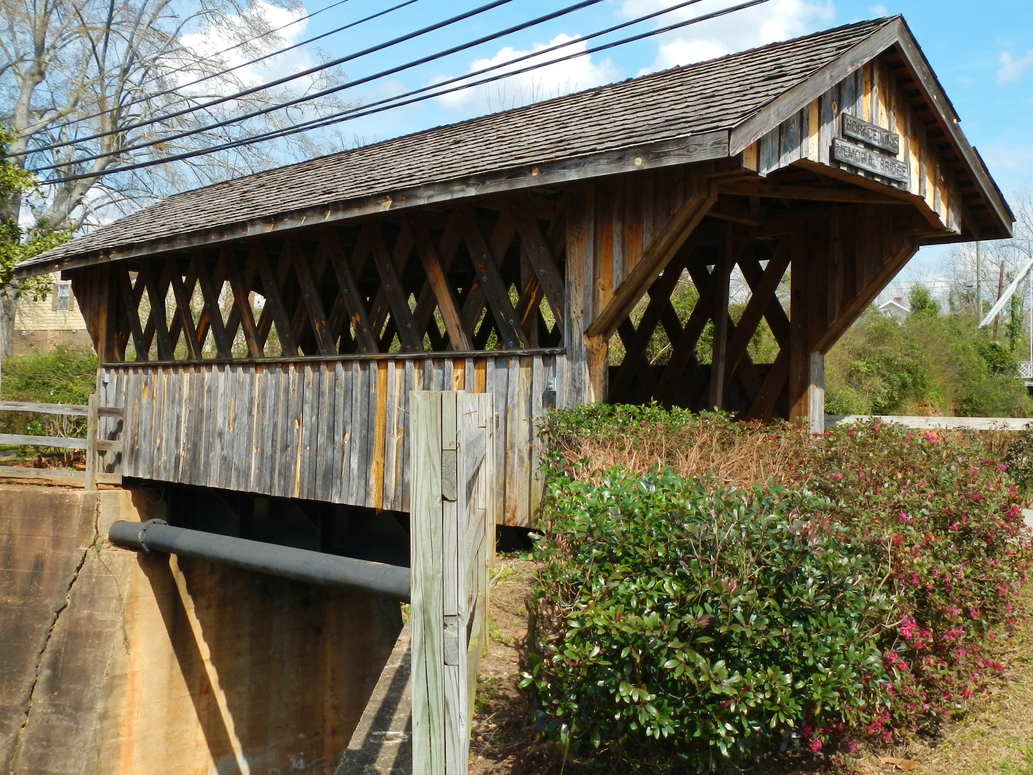 This is a photograph of the Horace King Memorial Bridge, a contributing property in the Langdale Historic District in Valley, Alabama.